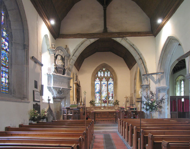 St Mary, Hunton, Kent